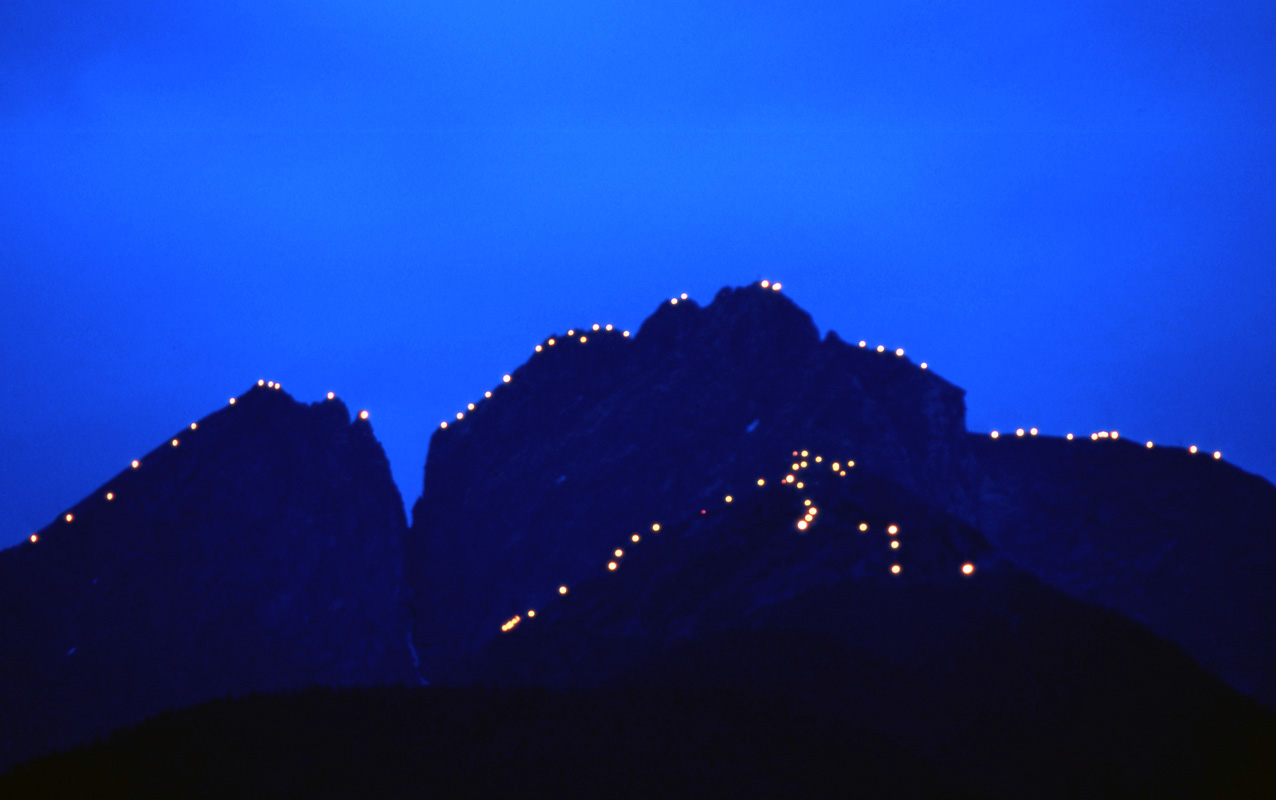 Herz Jesu Fires on Ifinger Mountain Summit - South Tyrol